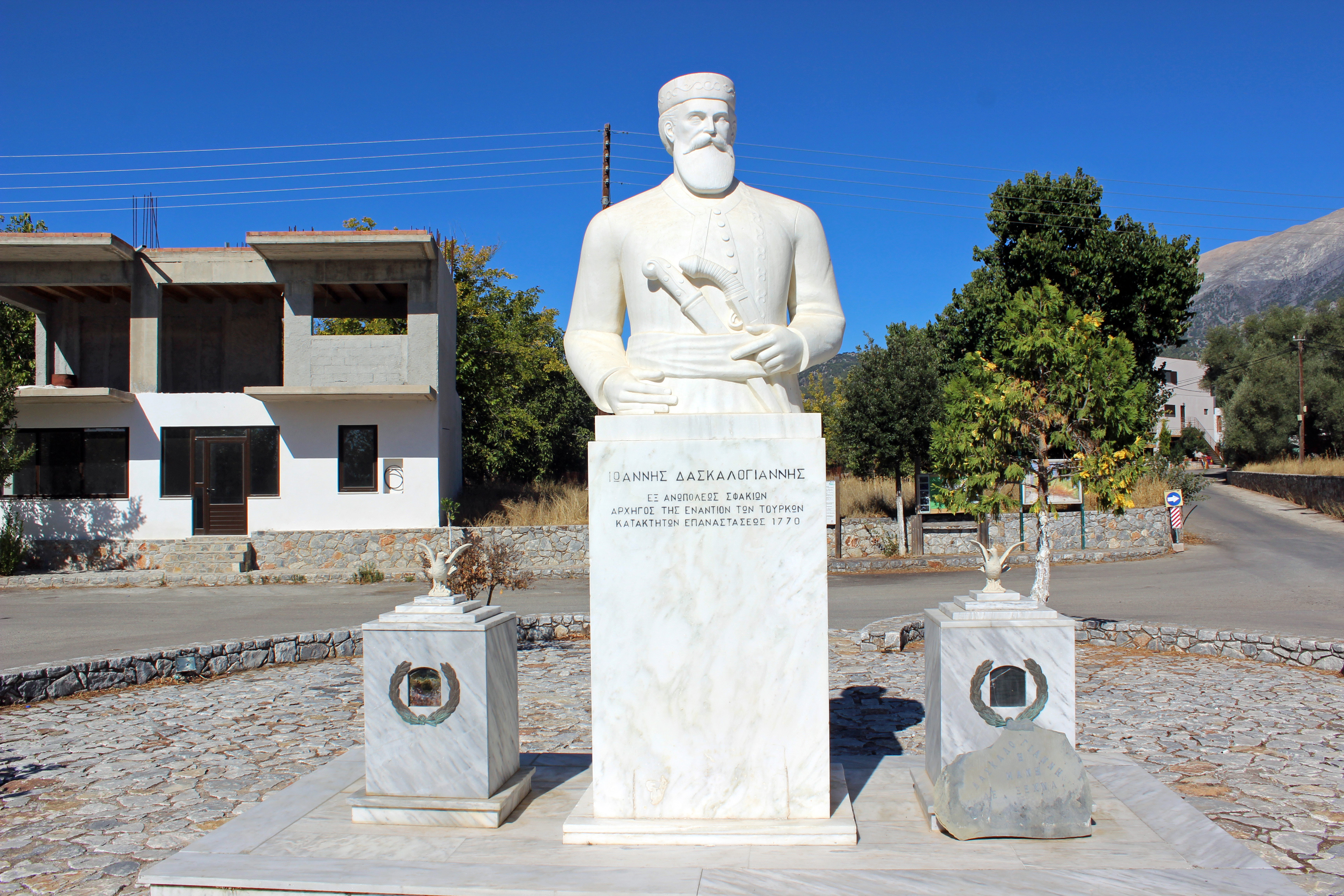 Monument “Daskalogiannis”, in Anopoli, Crete